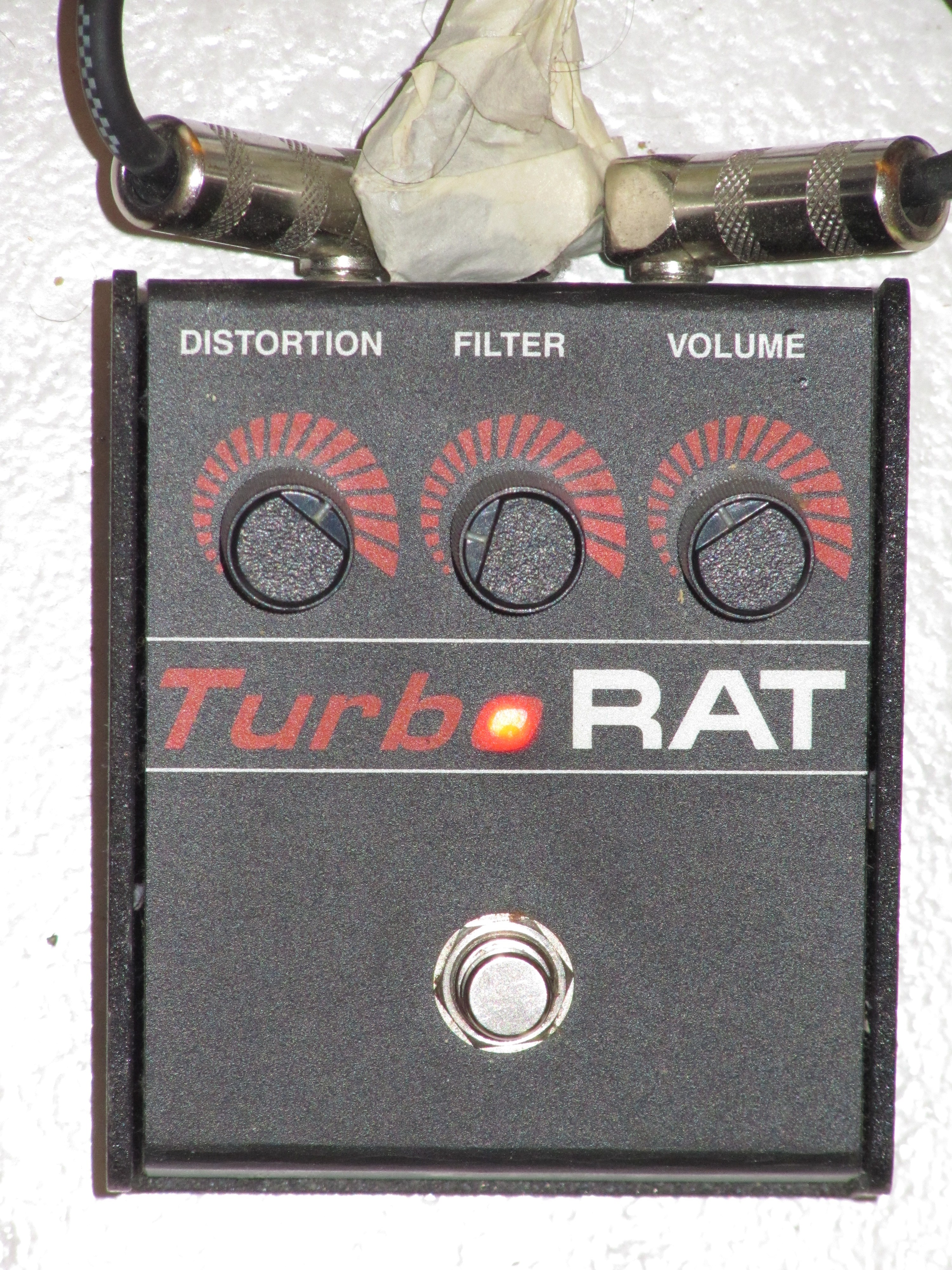 This is an effect pedal for electric guitar,from ProCo, the famous Turbo RAT. It's a distorsion pedal, featuring a distorsion level (the more you turn it, the more distorsion you get) knob, a filter knob that sets up the level of hi frequency sounds (the more you turn it to right, the less hi you get), and a volume knob that sets up the output volume of the pedal. It has one input and one output, use 9V batteries or 9v external power.